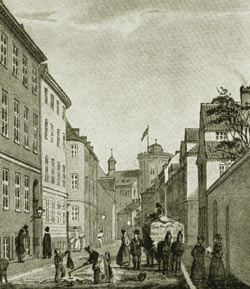 The street Krystalgade in Copenahgen, Denmark